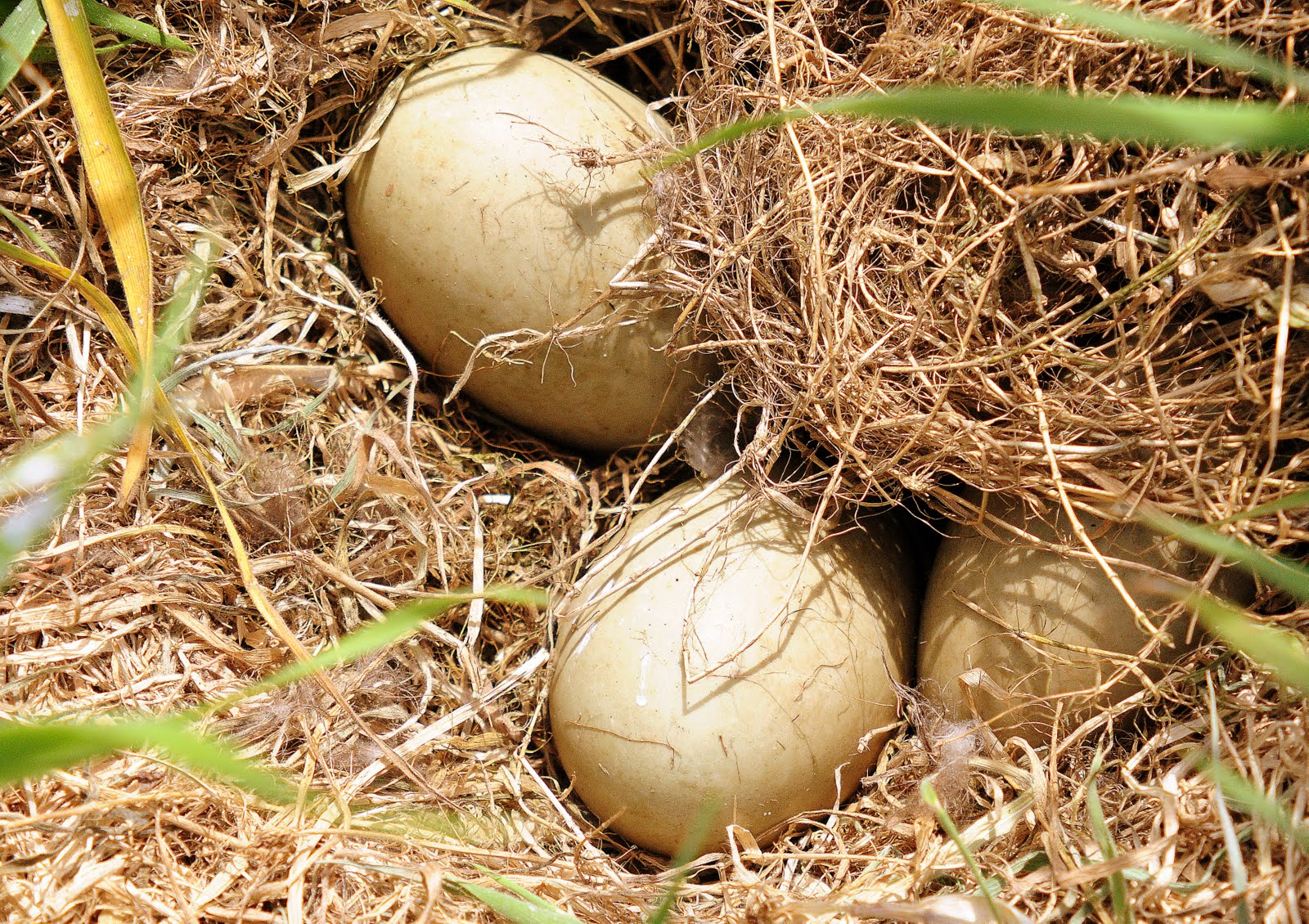 Common Eider eggs in a nest in Farne Islands, United Kingdom.